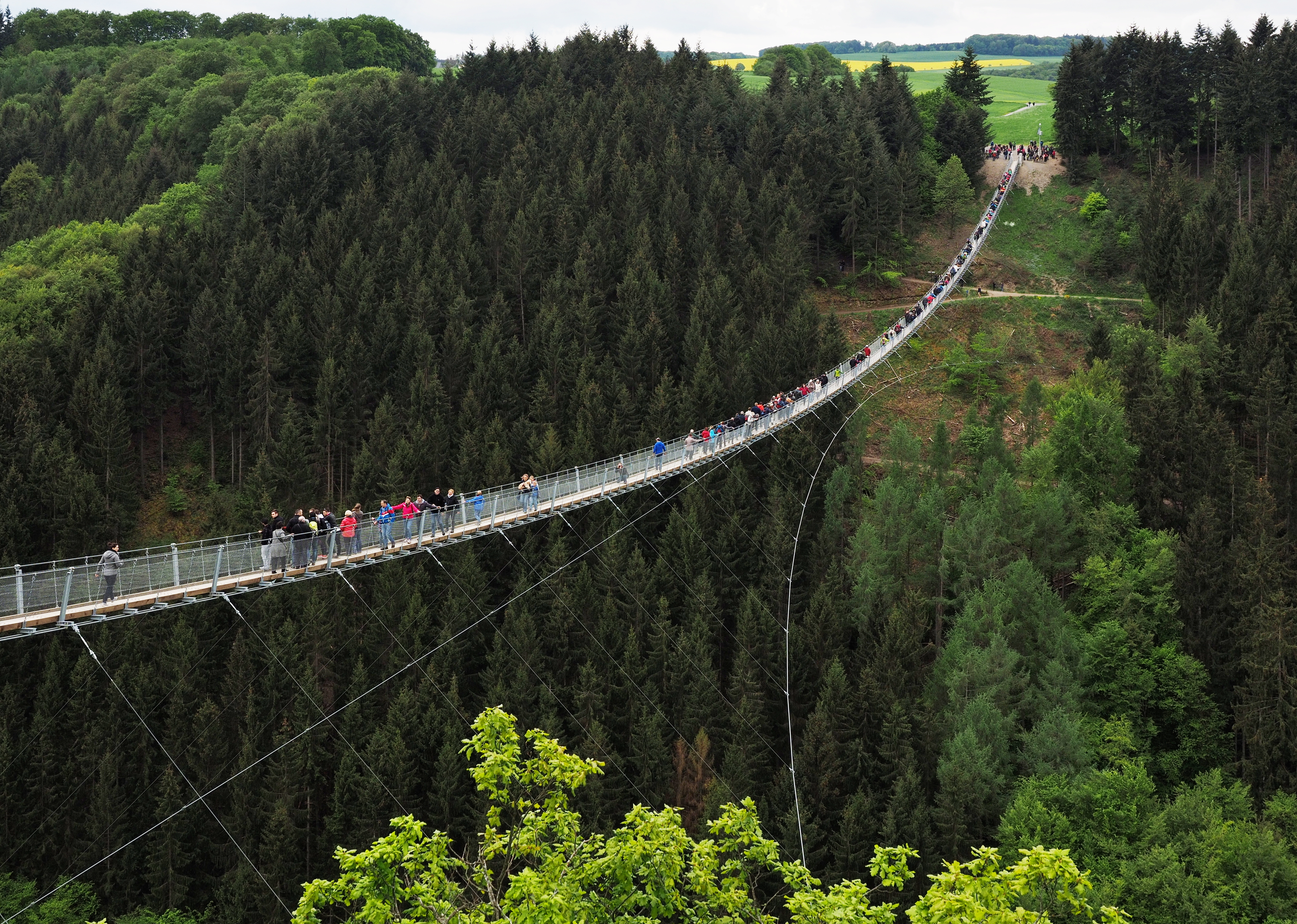 Geierlay, Germany’s widest-spanning suspension bridge, as seen from the north-east